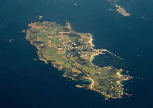 An aerial shot of the islands of Alderney (centre) and Burhou (upper right) in the Channel Islands, United Kingdom.